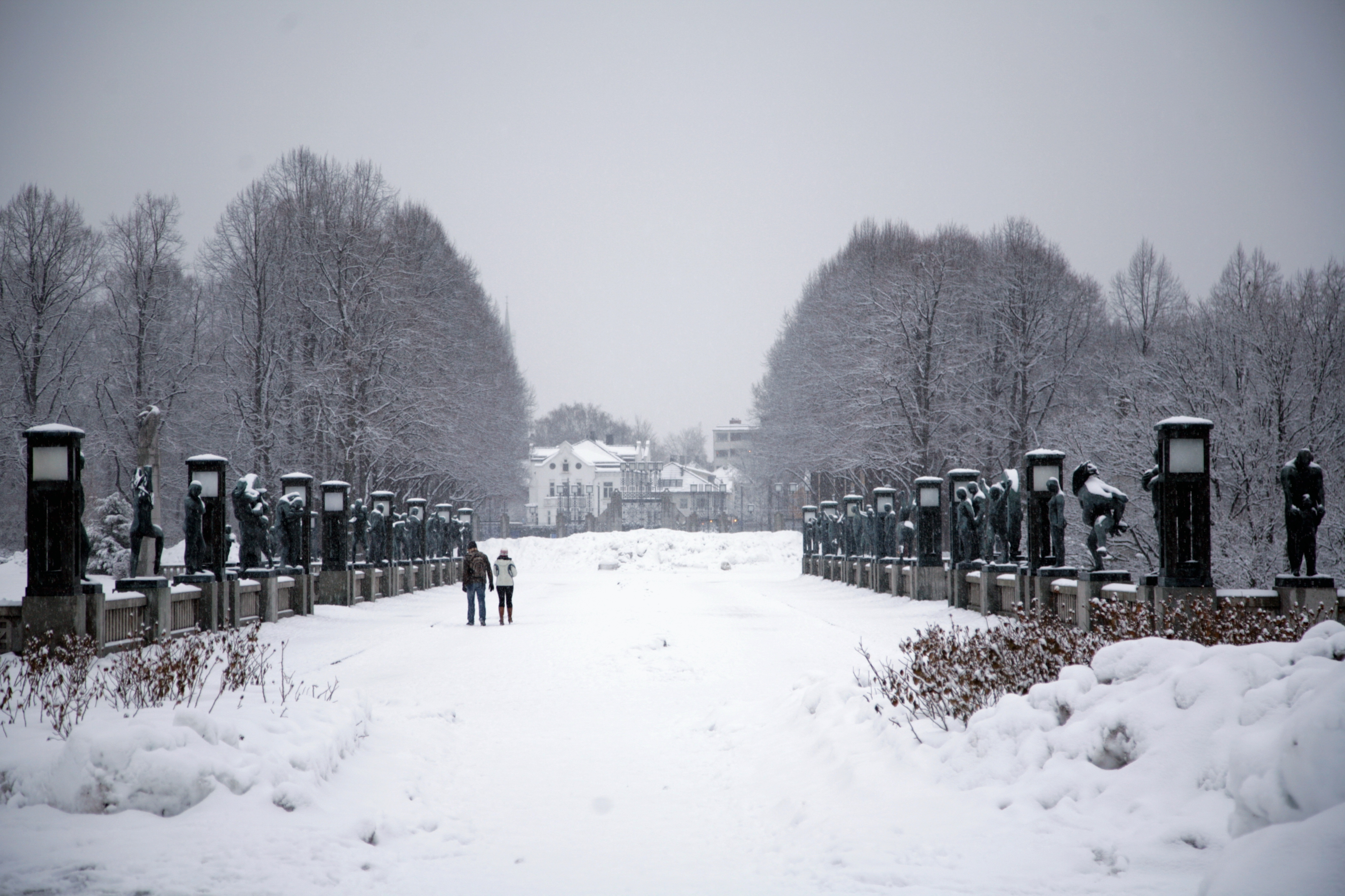 From Frogner Park in Oslo